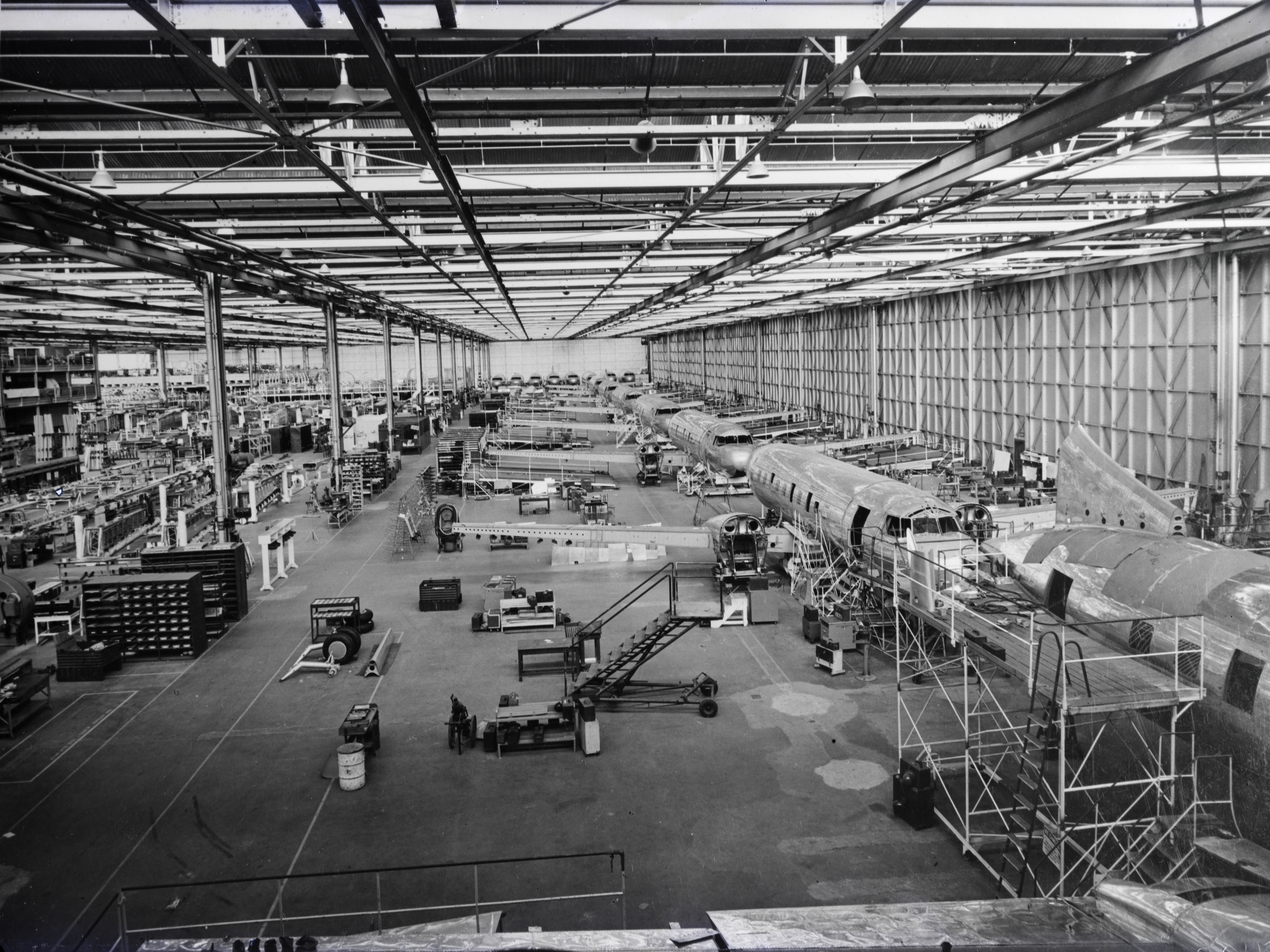 Swissair Convair CV-240 under construction